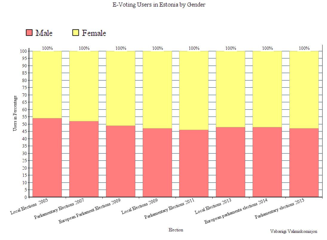 Graph of E-Voting Users in Estonia by gender. Information by Vabariigi Valimiskomisjon, [1]